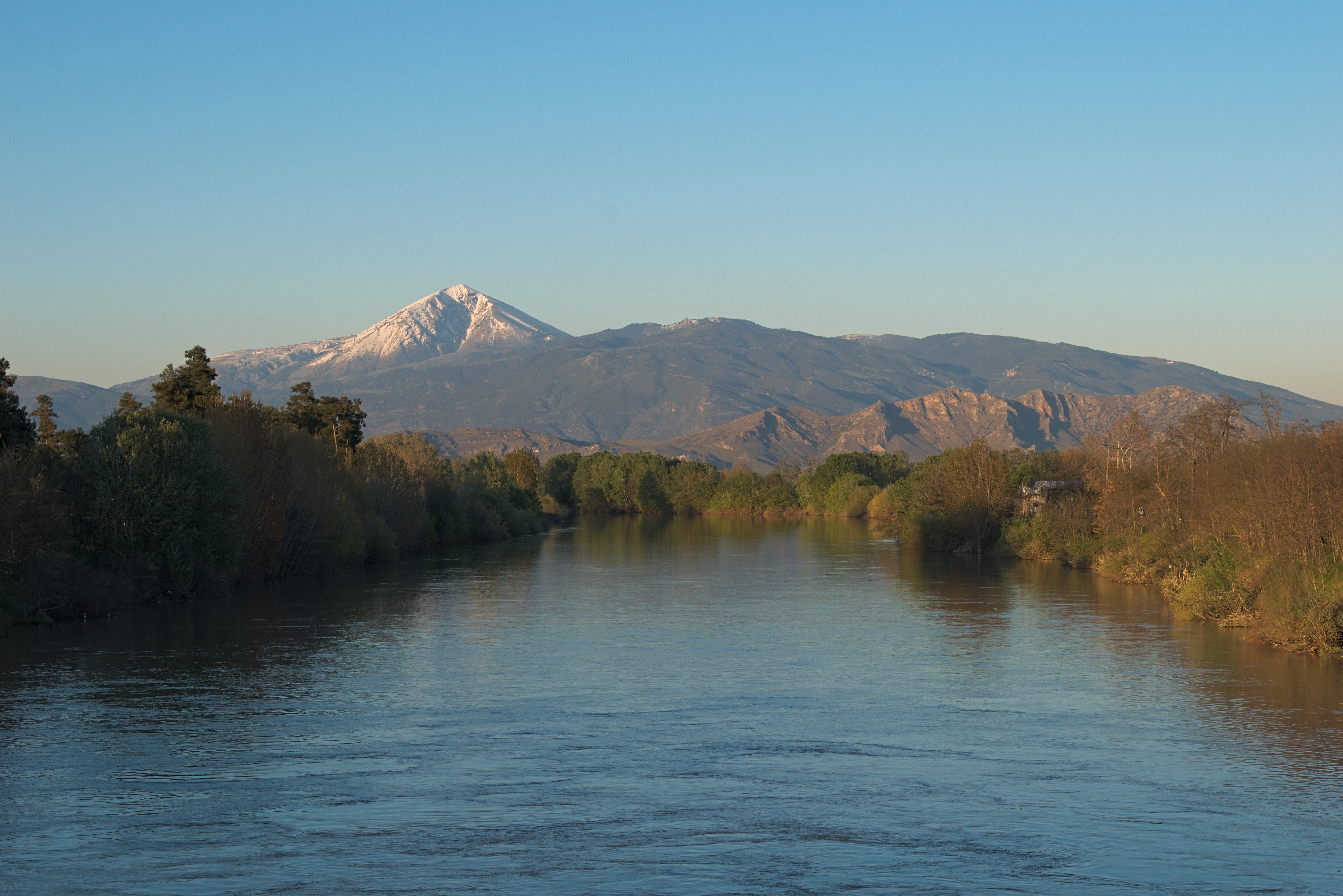 Pineios river and mount Ossa at distance. This is a photography of Natura 2000 protected area with ID GR1420007